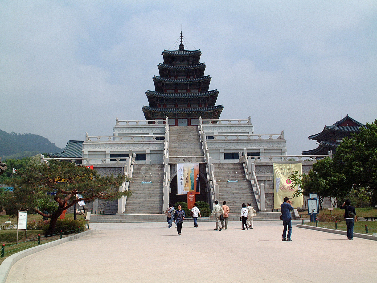 On the Kyongbokkung palace grounds